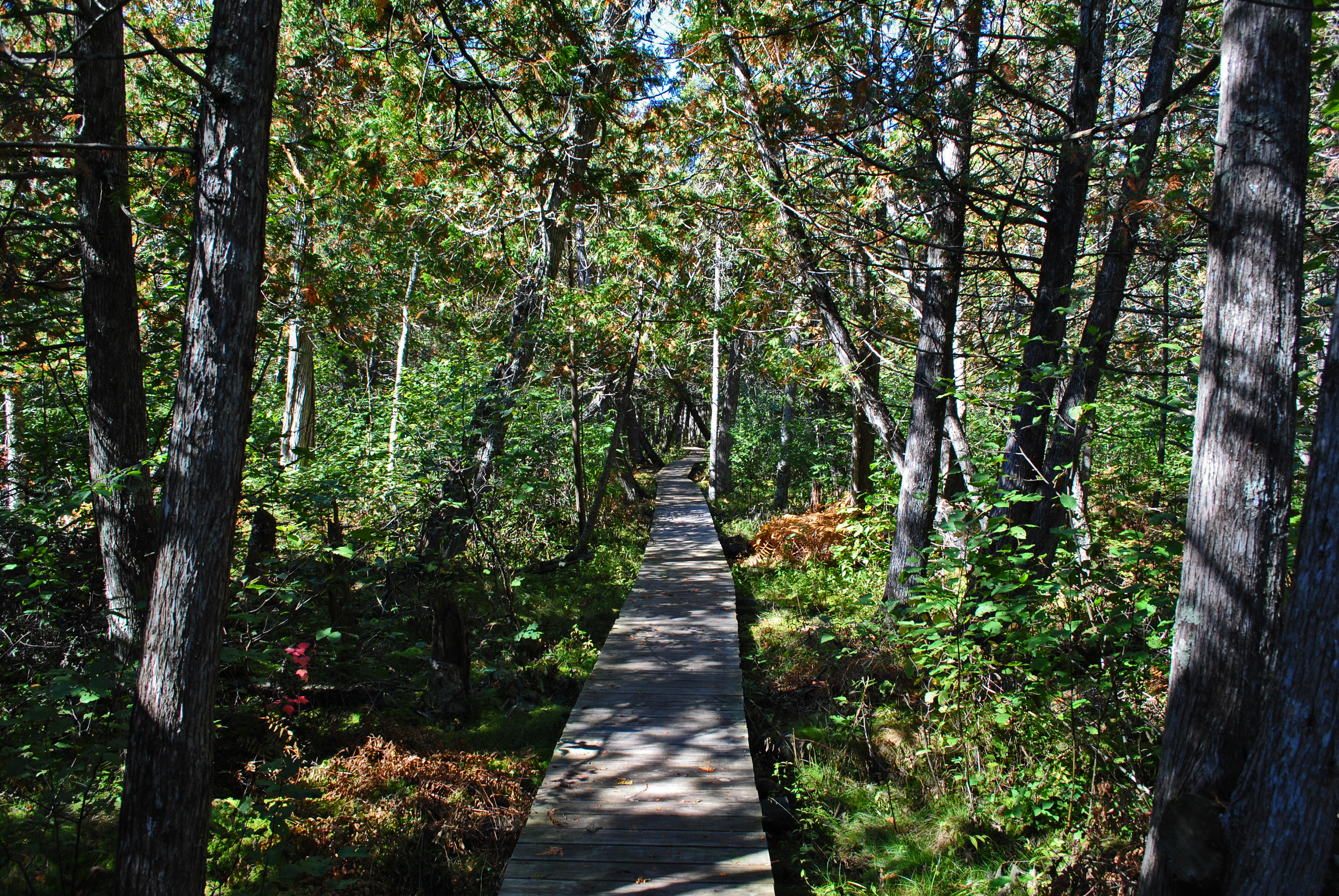 The Brule Bog Boardwalk, in Douglas County, WI; the North Country National Scenic Trail (NCT) passing through the Brule Glacial Spillway State Natural Area